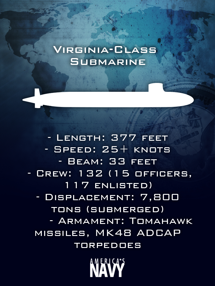 WASHINGTON (April 4, 2013) An informational graphic depicting a Virginia-class submarine. (U.S. Navy graphic by Mass Communication Specialist 1st Class Arif Patani/Released)